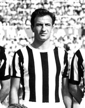 Turin, Communal Stadium, September 9, 1951. Italian footballer Sergio Manente with Juventus FC in the Italian Championship 1951–52 Serie A.